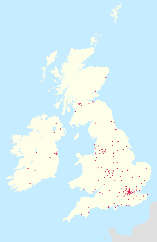 Image from